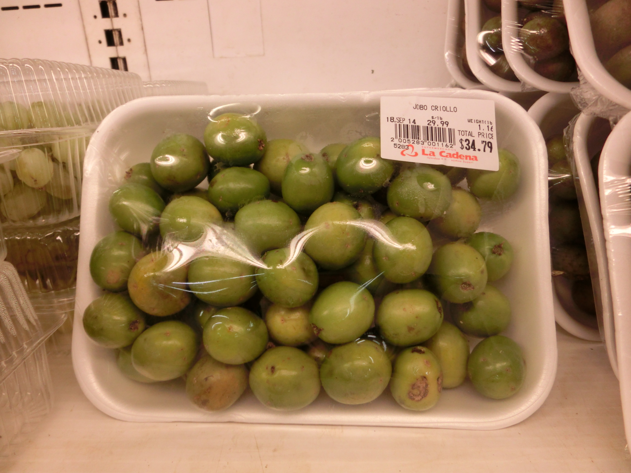 The edible fruit of Spondias mombin as seen in supermarkets in Santo Domingo, Dominican Republic.